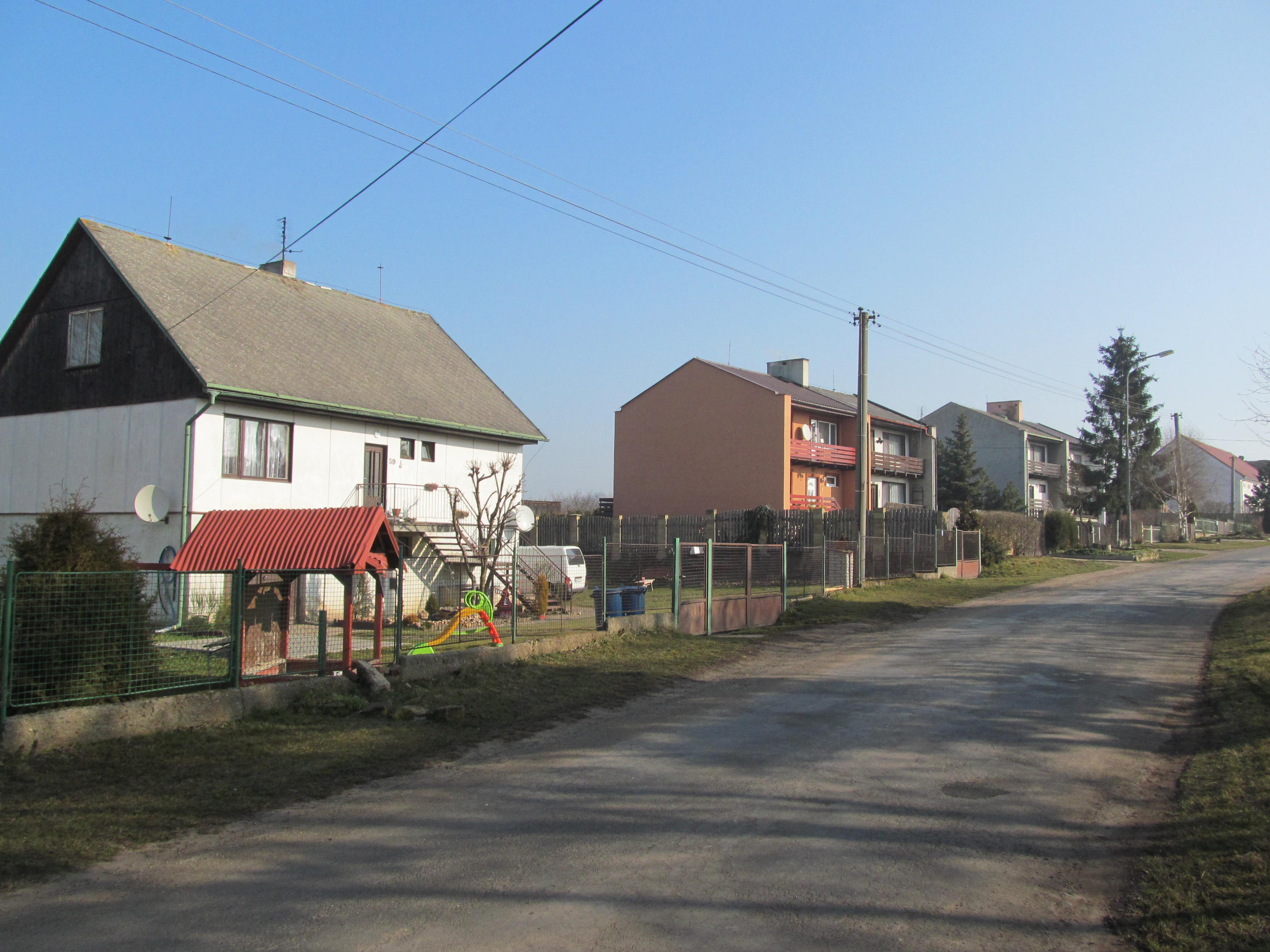 Street in Vrbka